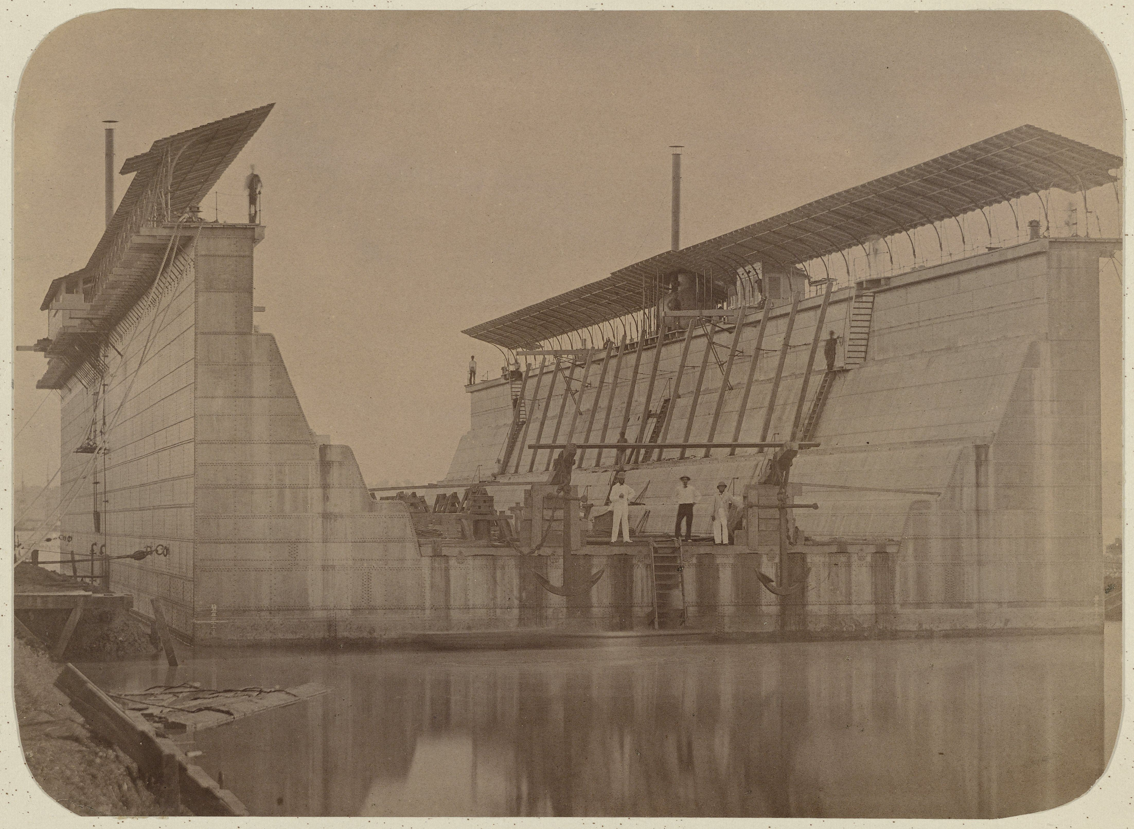 Black and white photograph showing the dry dock afloat with a number of workmen on it. A notable feature of the photograph is that the steam engine has been moved to the upper deck: this was done because of leakage problems. This iron dry dock was made by the Koninklijke Fabriek voor Stoom- en Andere Werktuigen Paul van Vlissingen & Dudok van Heel in Amsterdam from 1863 to 1864. A model of this dry dock is NG-MC-1187. The original design was by C. Scheffer, then a Navy engineer in Surabaya, and improved by August Elize Tromp (1801-1871) and J. Strootman. It was 90 metres long and had a load-bearing capacity of 3,000 tons. It was taken apart and shipped to Surabaya in 1864, where it was assembled again and towed to the island of Onrust to replace the wooden dry docks there. At the end of the 1870s, it was considered worn out and was consequently replaced by a larger floating dock of which NG-MC-1411 is a model.